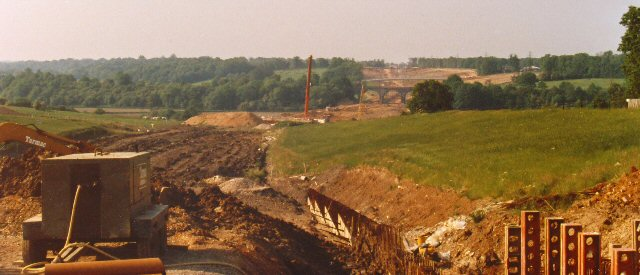 M25 - Work In Progress at Tatling End. View from near to Higher Denham Fire Station at Tatling End on A40, looking N. An interesting feature is how the developers fitted the new motorway through the arches of the existing railway bridge (just in the next square at TQ016881). Twenty years on - how did we do without the M25?